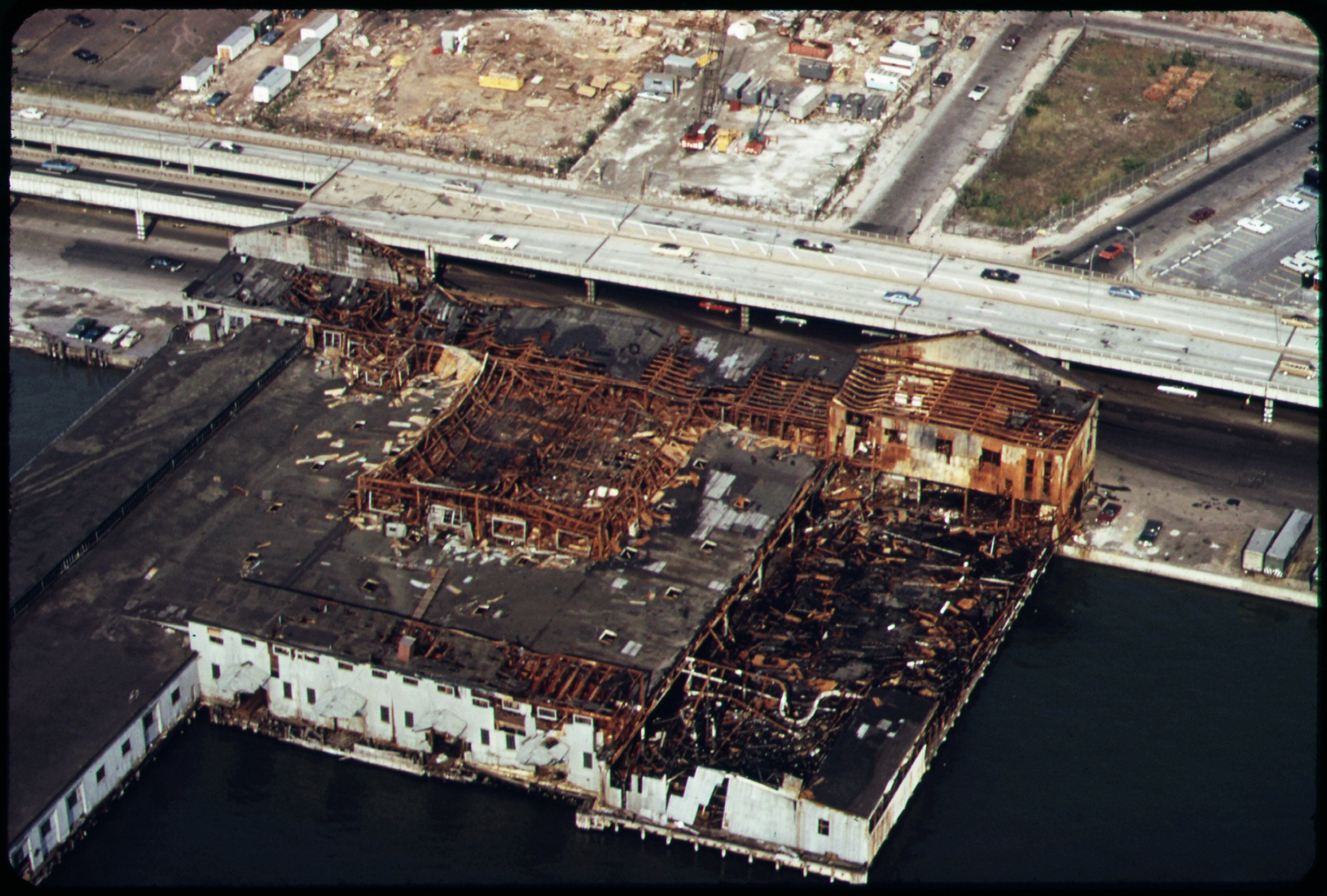 DISUSE AND AGE ROT OLD WAREHOUSES AND SHIP TERMINALS ON THE HUDSON RIVER. ALONGSIDE IS THE WEST SIDE HIGHWAY, A MAJOR MANHATTAN TRAFFIC ARTERY